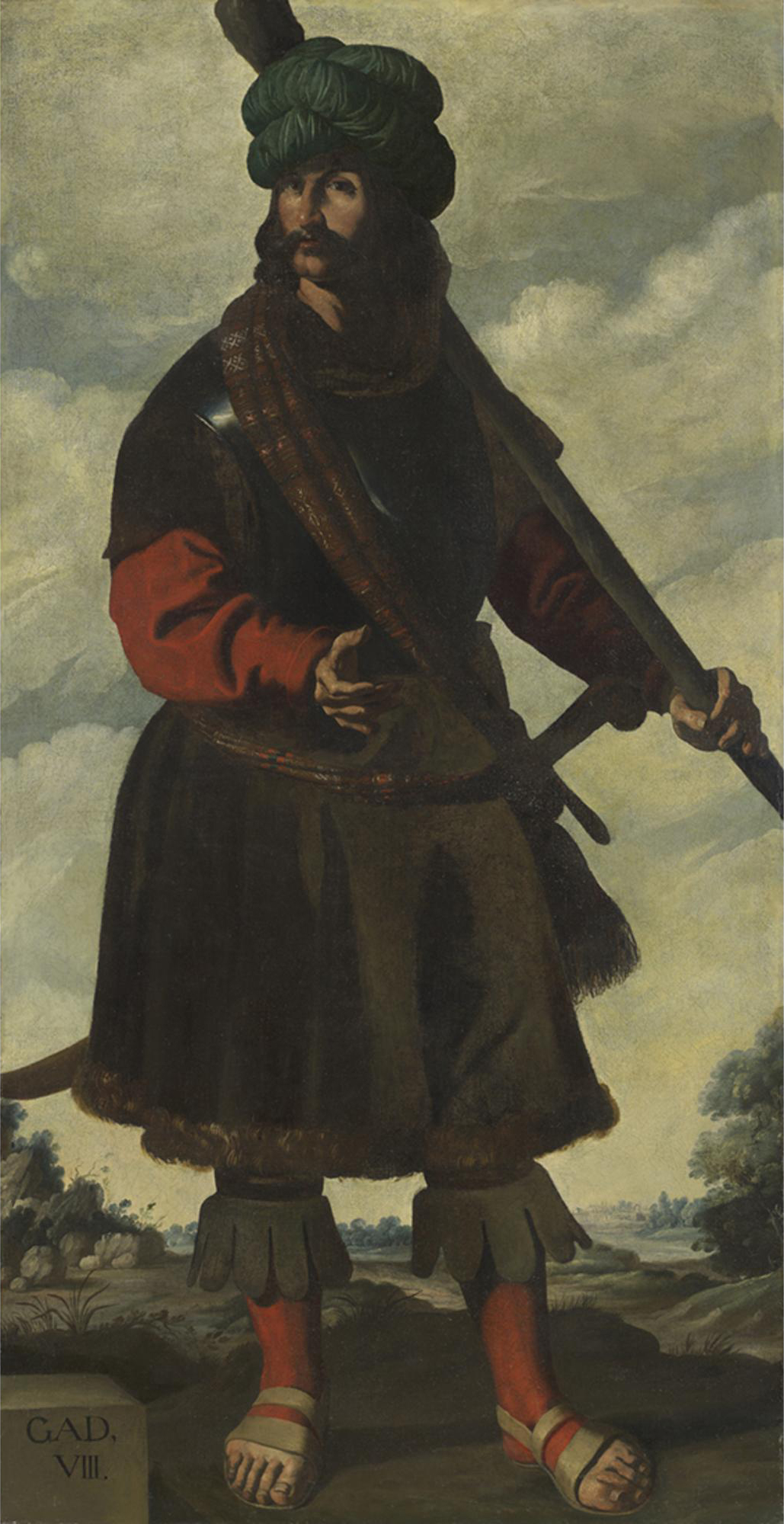 1640-1645 painting of the biblical patriarch by Francisco de Zurbarán